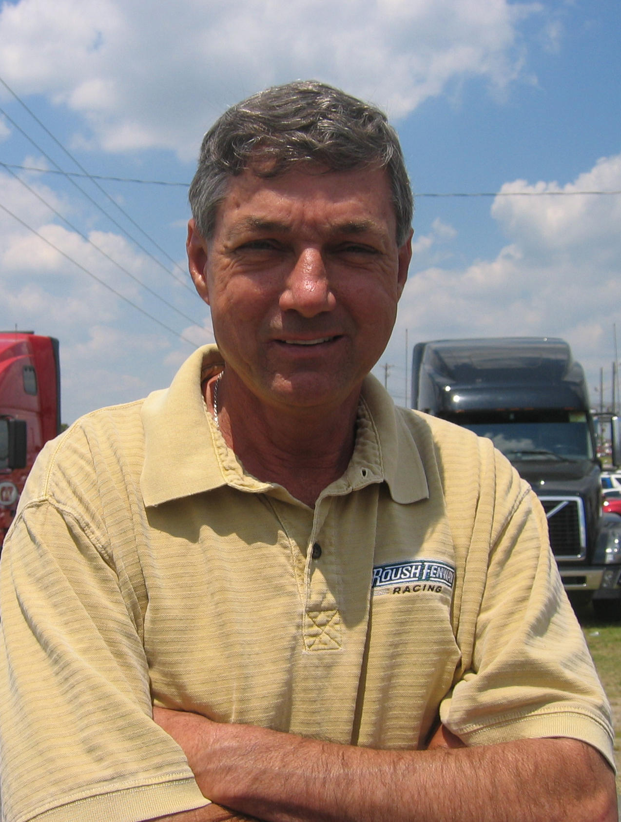 Ken Ragan at the 2008 Coca-Cola 600.